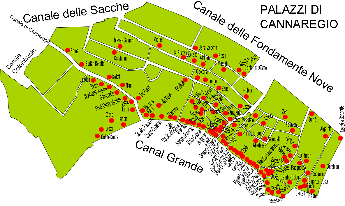 palaces of Canaregio Venice